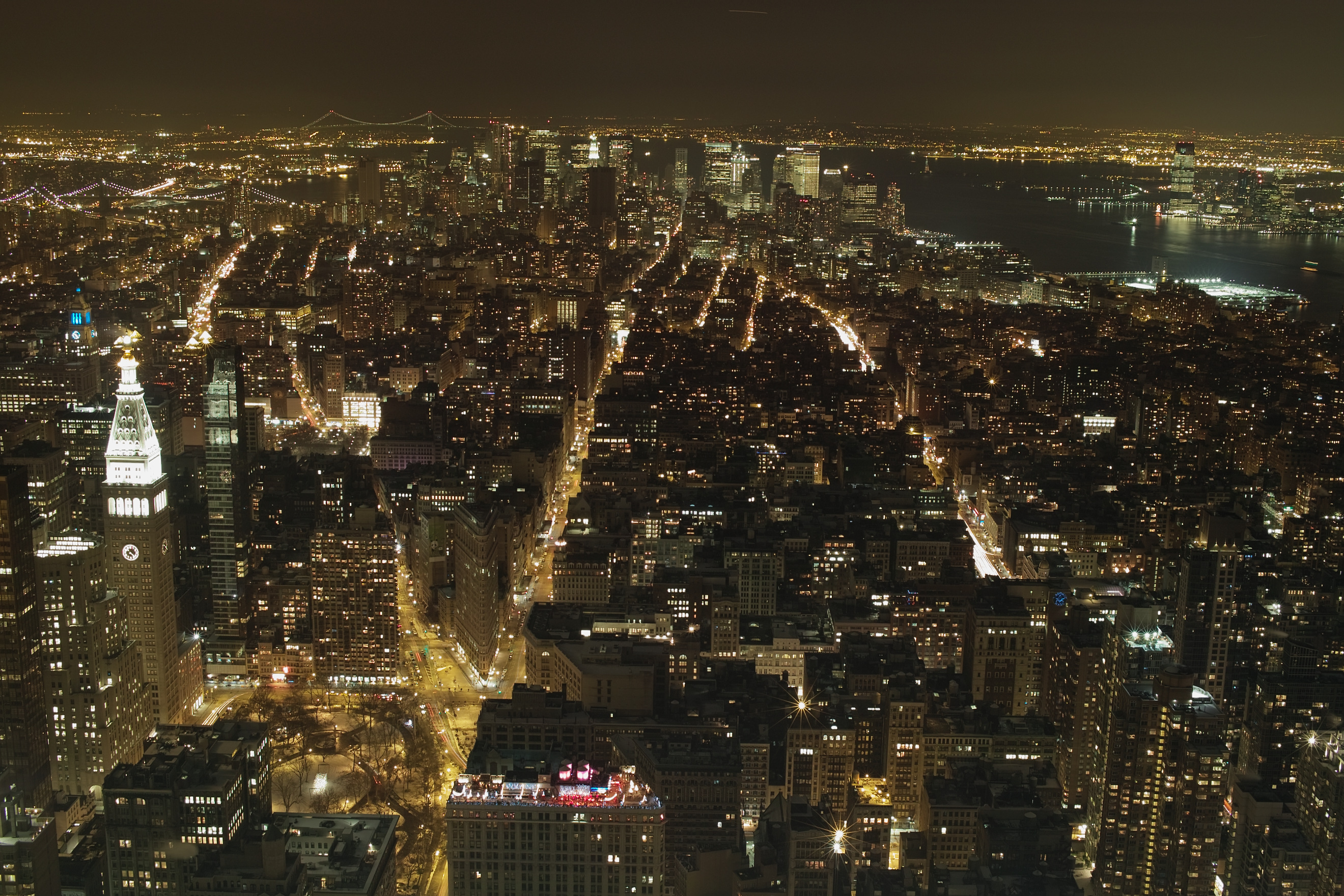 A night view from the Empire State Building's observatory